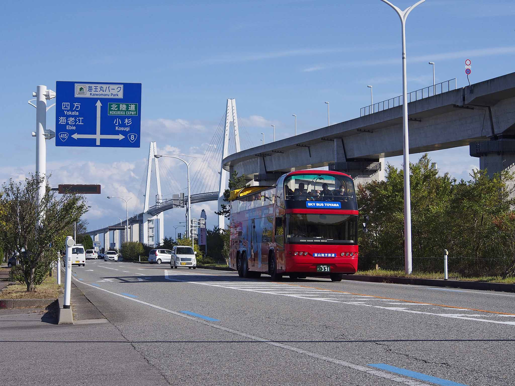 Sky Bus Toyama, operated at Shinminato Bridge by Toyama Chihou Railways, from October 12 to 16, 2018. Model: Neoplan Skyliner (rent from Hinomaru Jidosha Kogyo) License plate: TYT200 KA0391 Place:Neighbor of Kaiwomaru Park, Imizu, Toyama